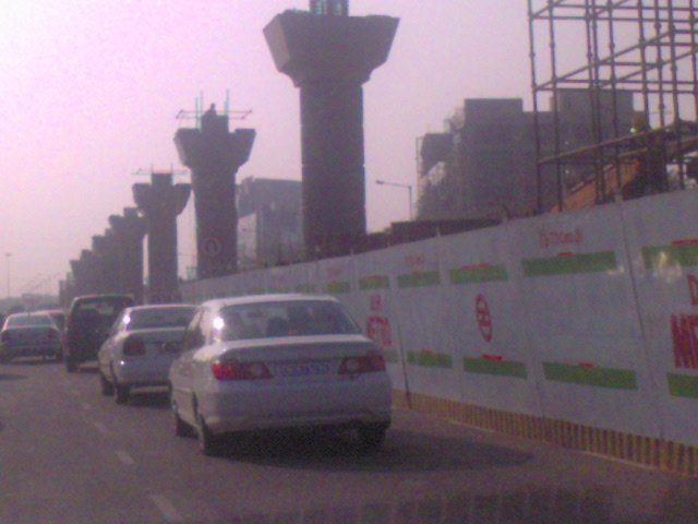 Construction of Metro going on in Gurgaon